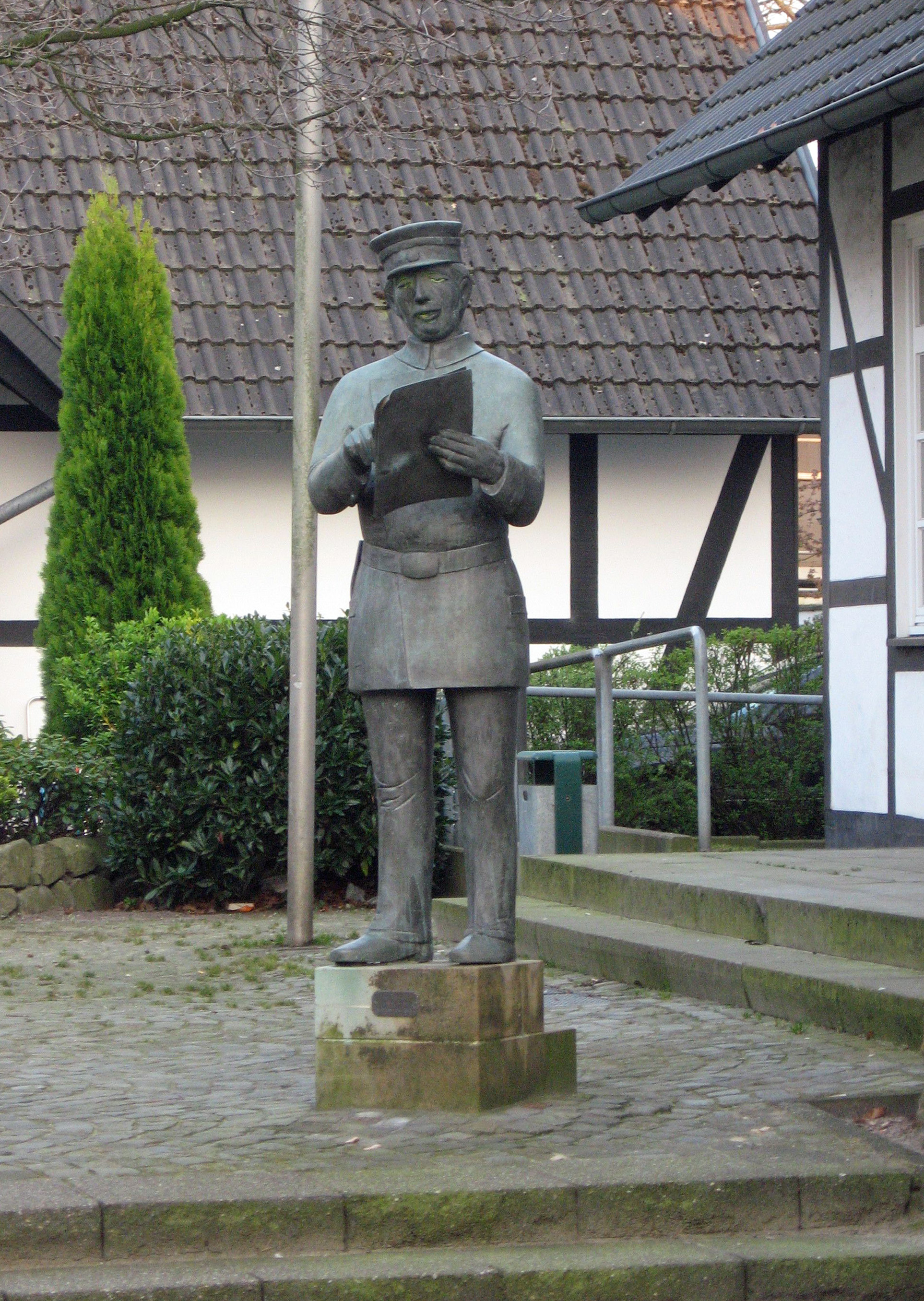 Bronze sculpture of a historic Afrouper (community messenger). Before newspapers existed until August 1965, the citizens were informed – on Sundays after church – of official announcements and other news on the Afroupeplatz (community messenges square) by the Afrouper. Until the end of World War I the local policeman served as Afrouper. Sculpted by Anne Daubenspeck-Focke and revealed in 1994.